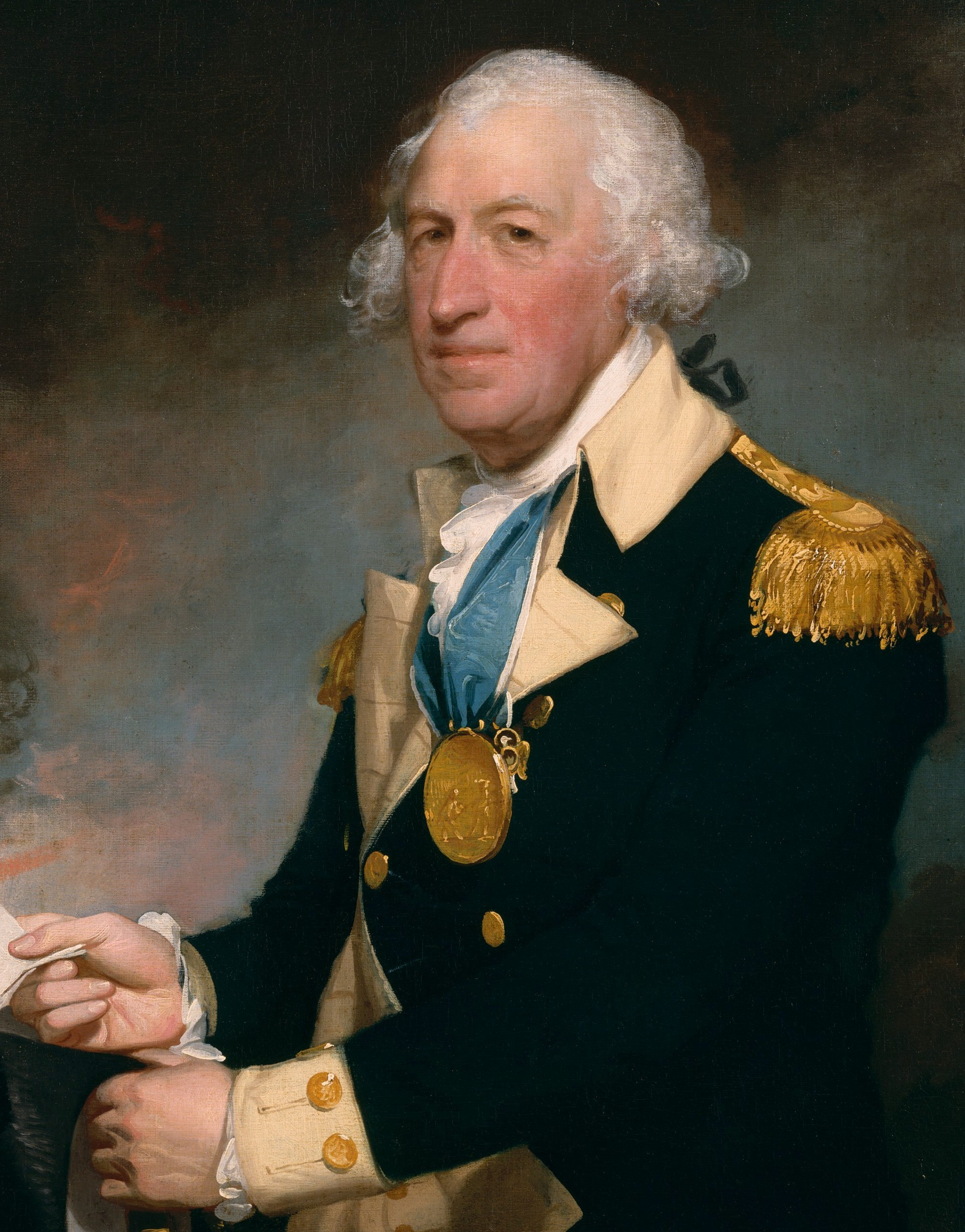 Oil painting of Continental Army general Horatio Gates.